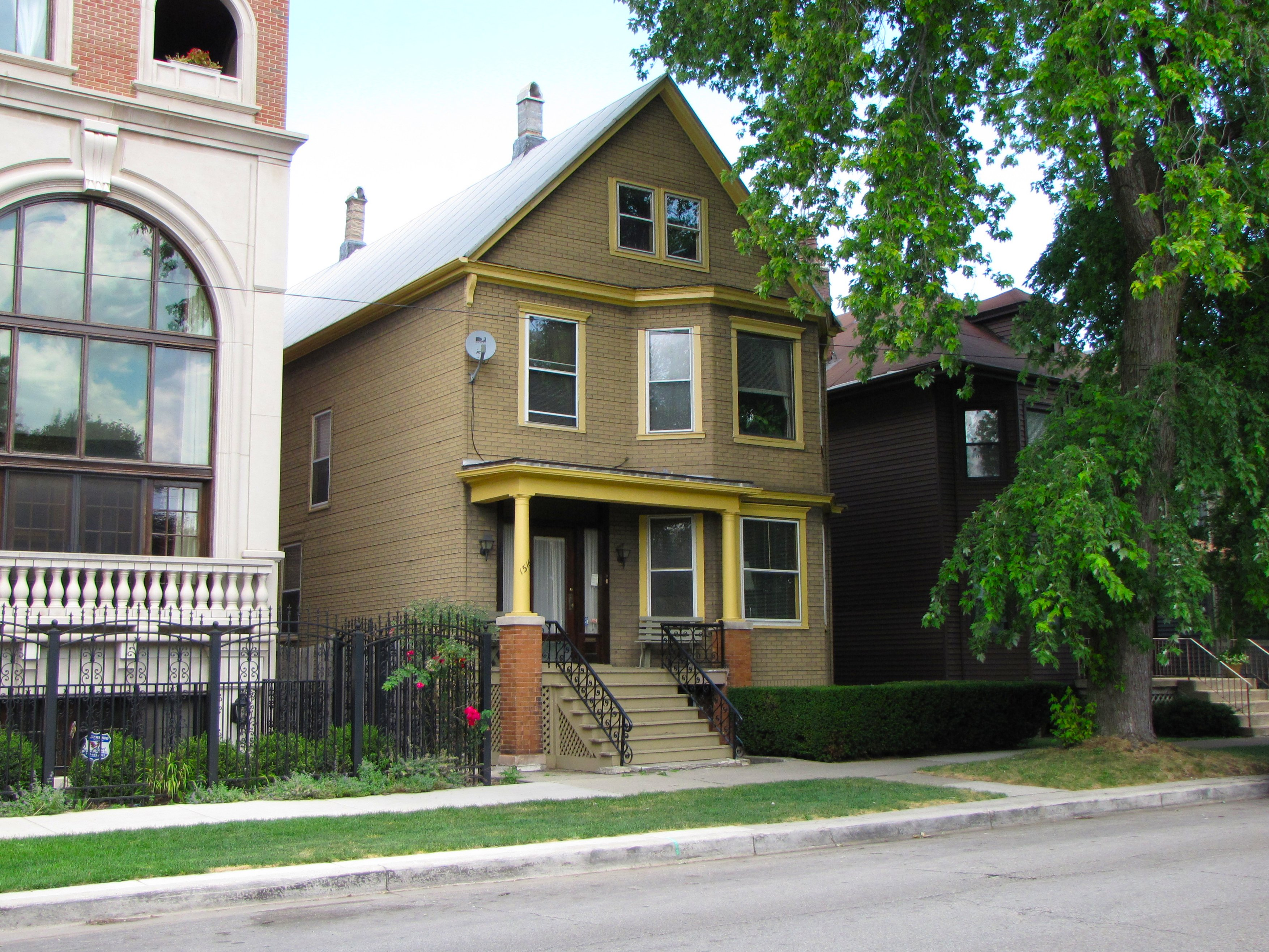 Family Matters house, at 1516 W. Wrightwood Avenue in Chicago, Illinois. The structure to the left of the Family Matters house did not exist at the time the exterior shots for Family Matters were filmed.